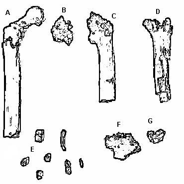 Orrorin tugenensis fossils. A: BAR 1002'00, left femur; B: BAR 1215'00, fragmentary right proximal femur; C: BAR 1003'00, proximal left femur; D: BAR 1004'00, right distal humerus; E: Teeth; F: BAR 1000'00, left mandibular fragment with M2–3; G: BAR 1000'00, right mandibular fragment with M3.